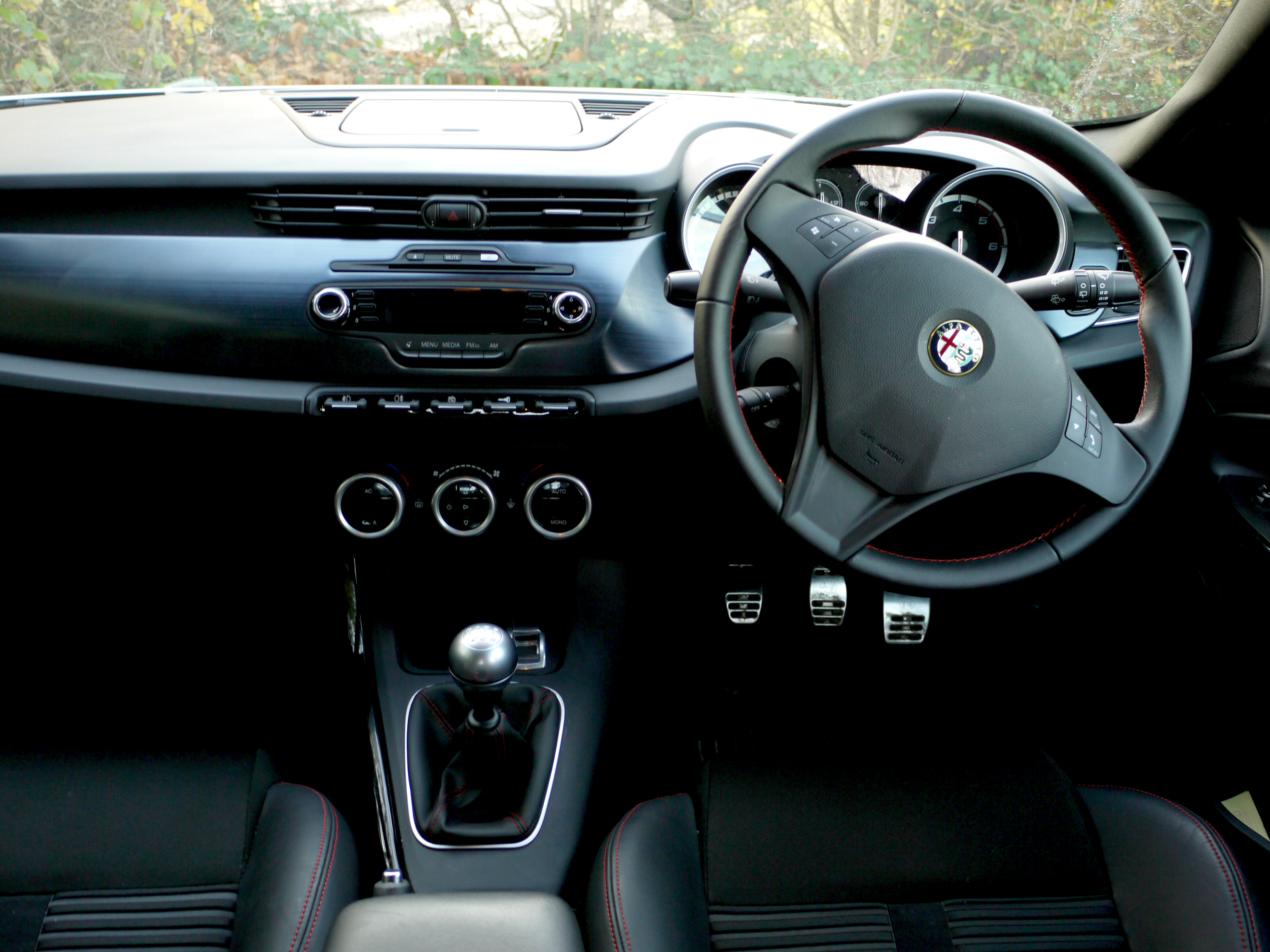 2011 Alfa Romeo Giulietta JTDM-2 Veloce - my rental for the week.